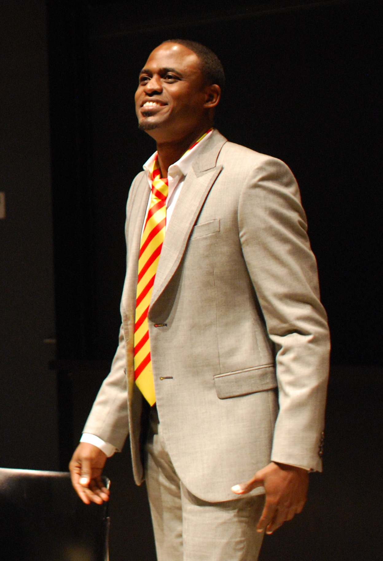 Comedian Wayne Brady performing with The Immediate Gratification Players in a show honoring his Immediate Gratification Player of the Year award.